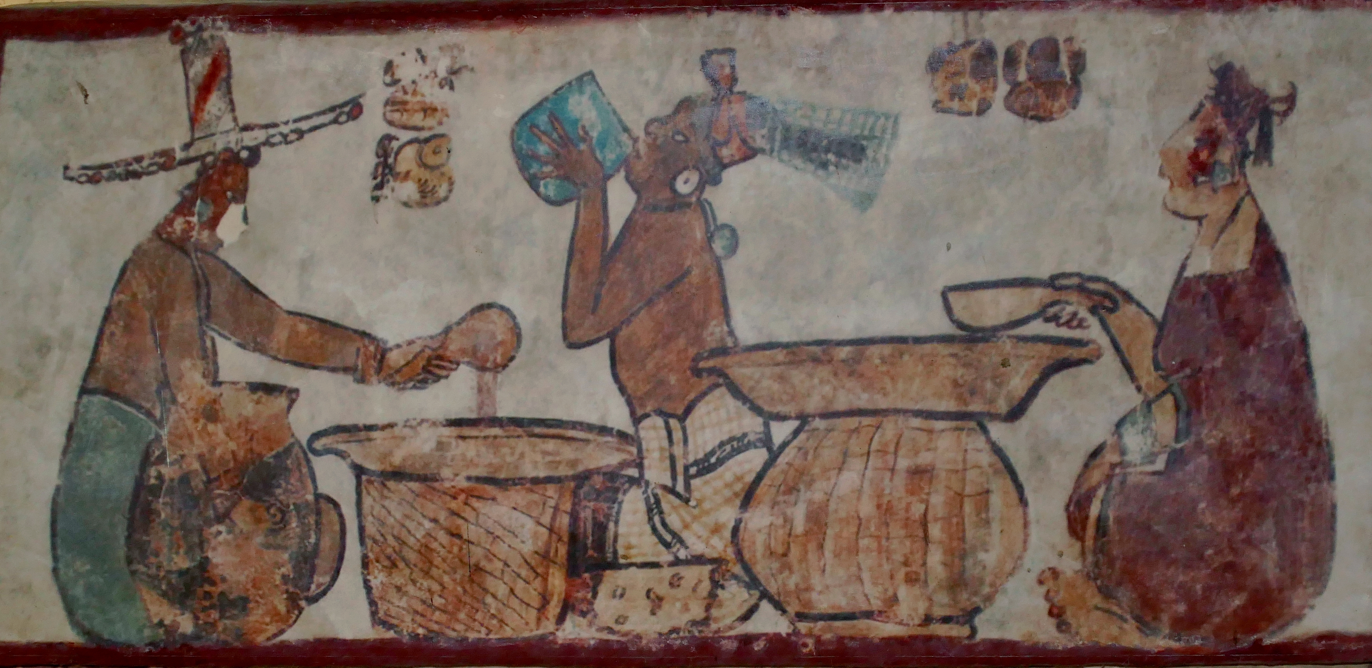 Reproduction of Mural from Structure I, depicting a prehispanic ceremony of maize brew being served. Calakmul Museum, Calakmul Archeological Zone, Campeche, MEXICO